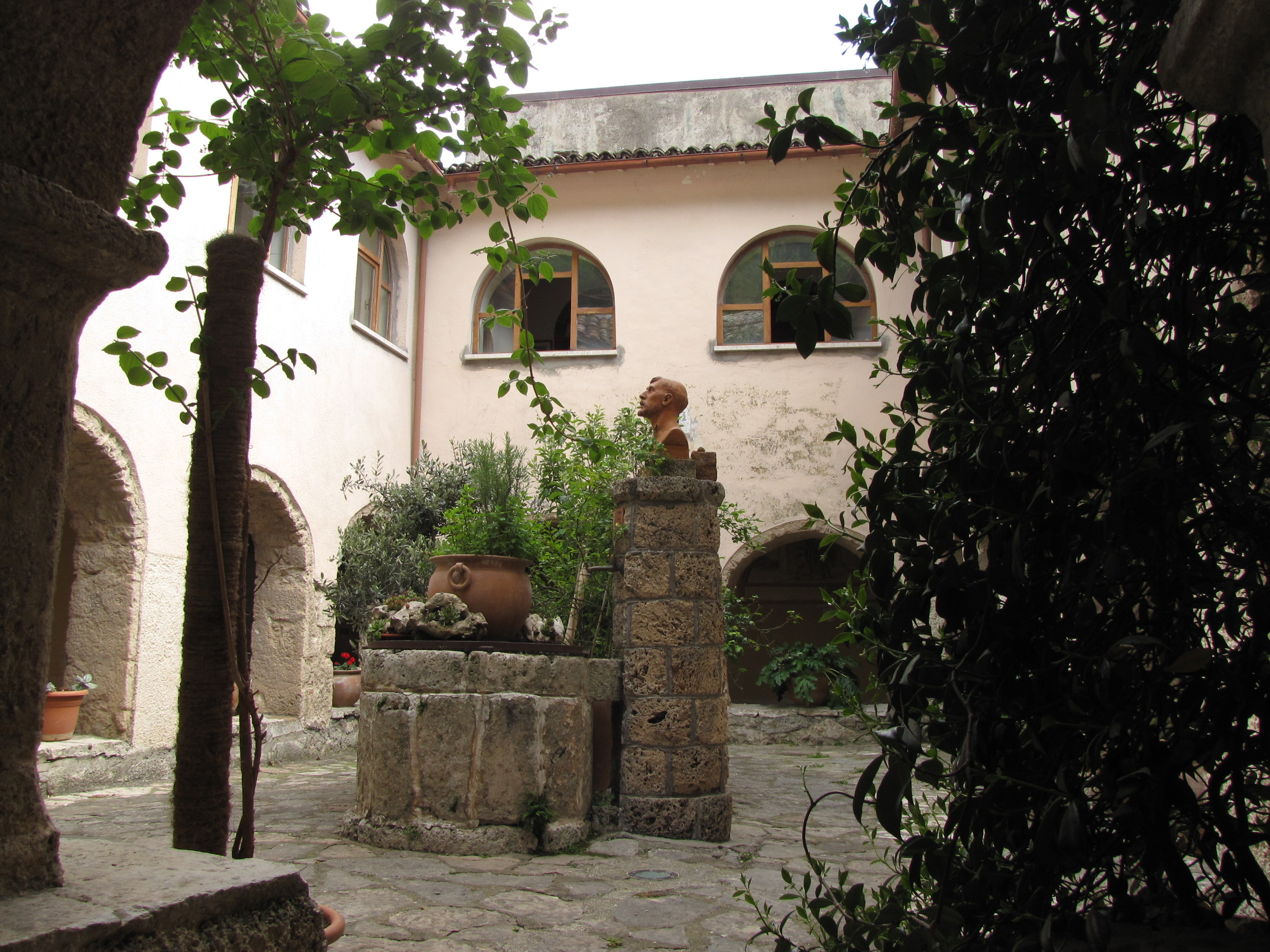 Sanctuary of Poggio Bustone (Province of Rieti, Lazio, Italy)